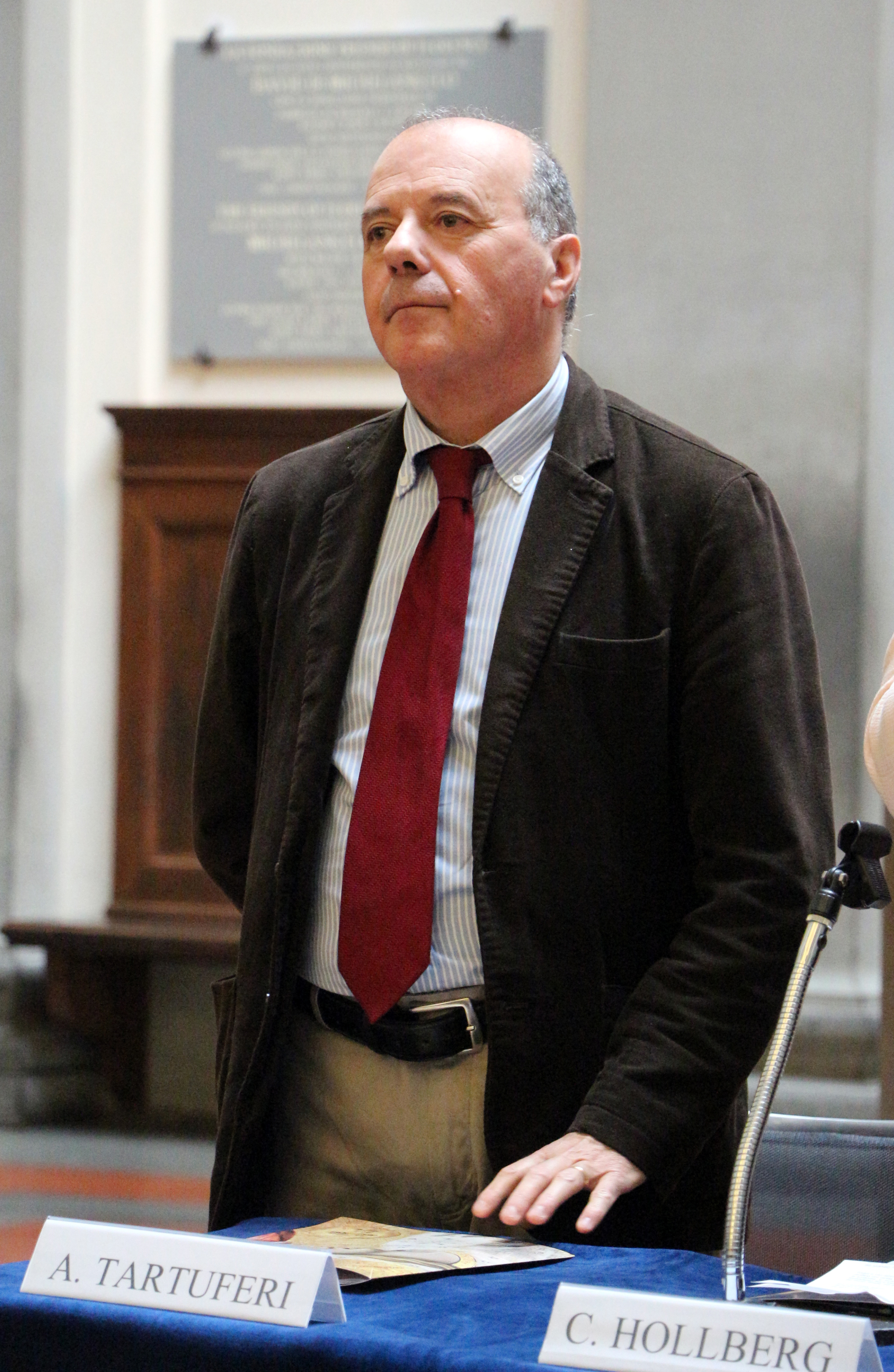 Galleria dell'Accademia, Florence